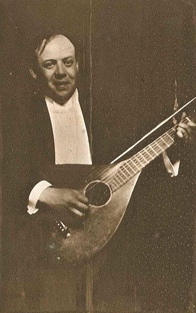 Gunnar Bohman (1882-1963), Swedish author, composer and lutenist.